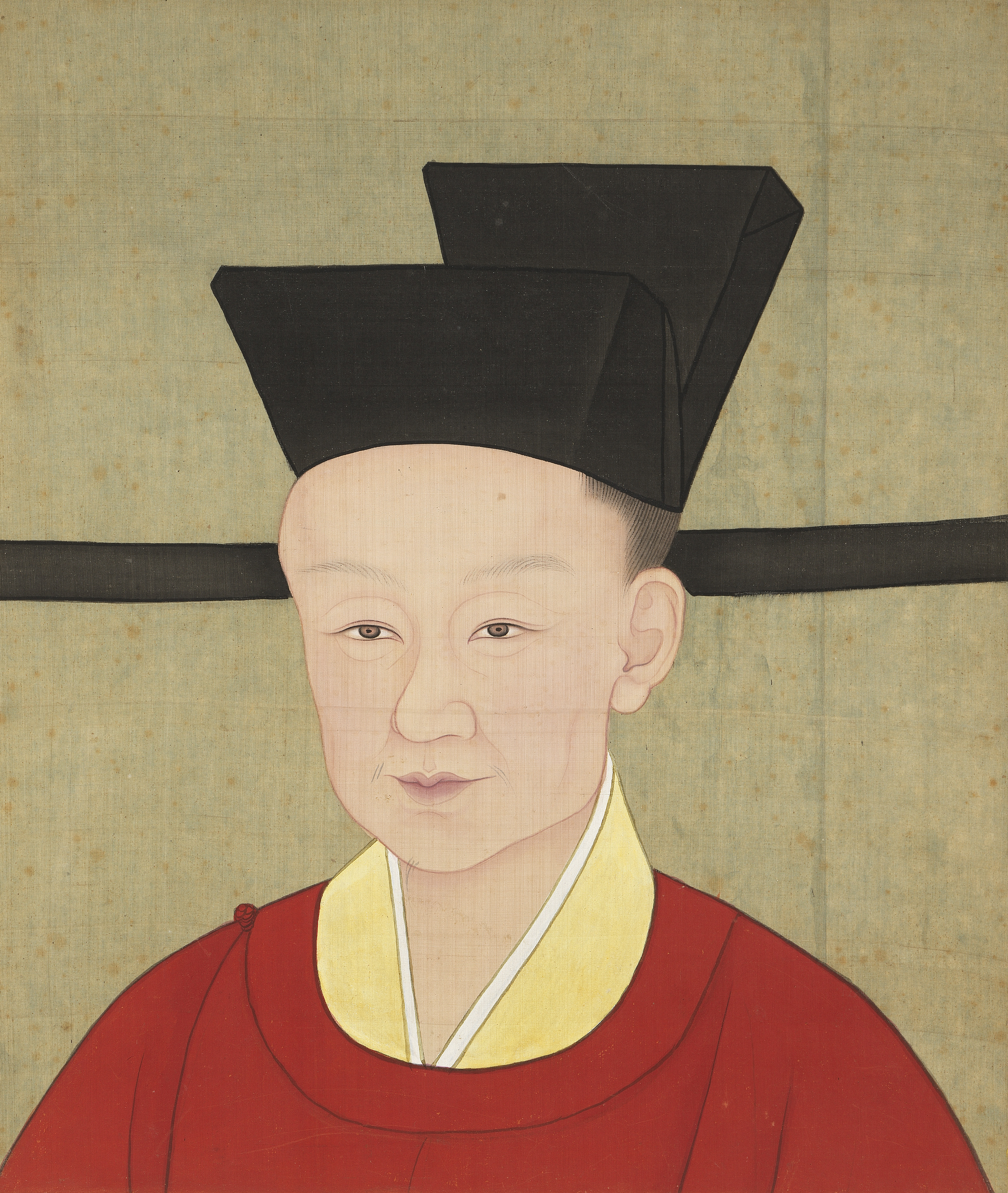 the portrait of emperor Duzong of song. this picture was painted in 1264 A.D